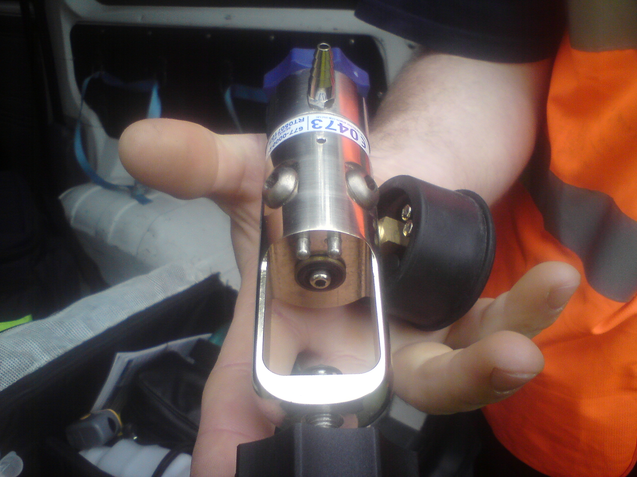 Medical oxygen regulator